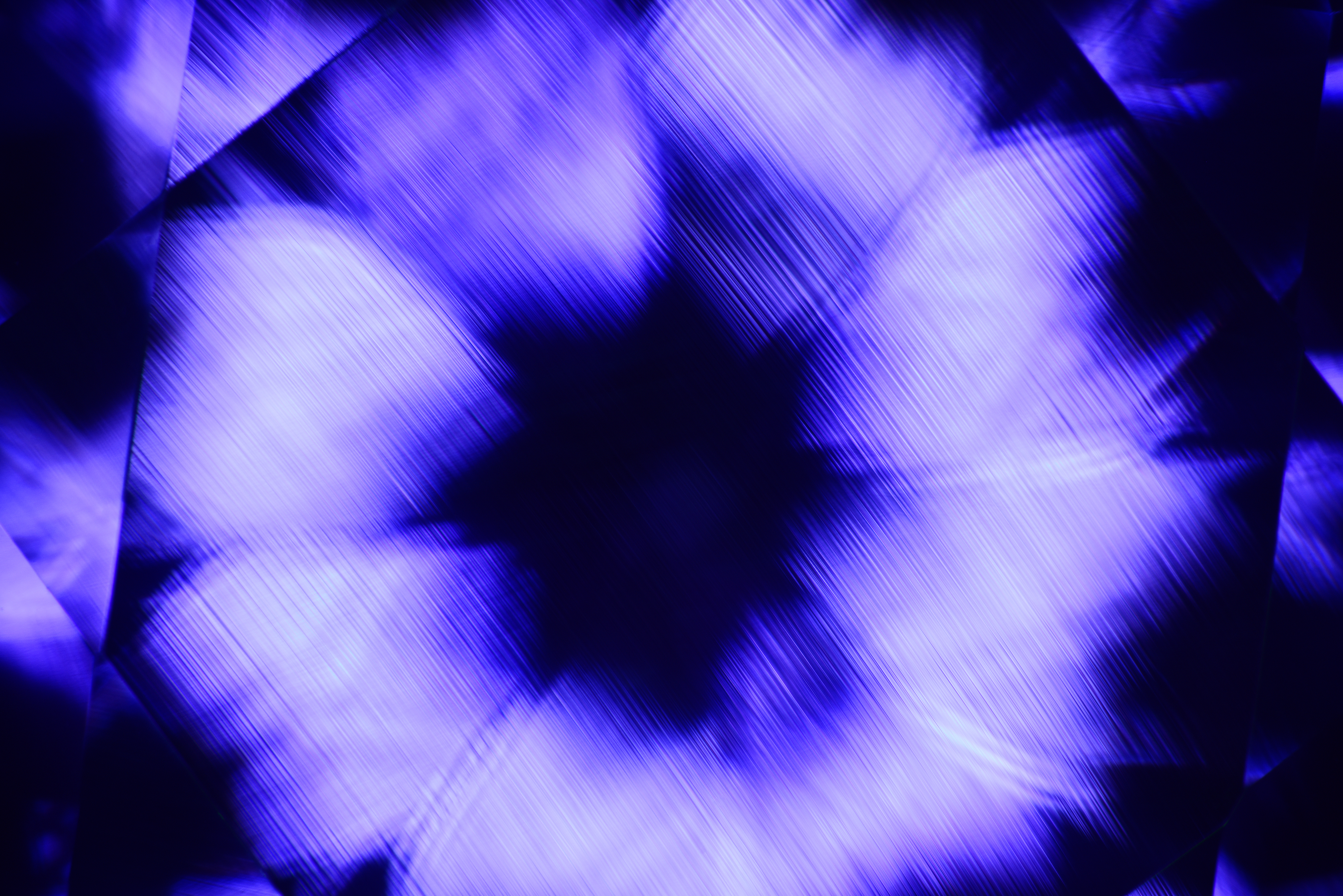 The curvature observed in this synthetic color-change Sapphire is due to a process known as the Verneuil Process or, flame fusion. During this process, a fine crushed material is heated at extremely high temperatures. The crushed material is then melted which drips through a furnace onto a boule. This boule where the Corundum cools down and crystallizes, spins and thus causes the curved striations. Natural Corundum does not form this way and helps gemologists separate natural Corundum from synthetic Corundum.